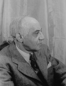 William Stanley Beaumont Braithwaite (December 6, 1878 – June 8, 1962) Portrait of William Stanley Braithwaite